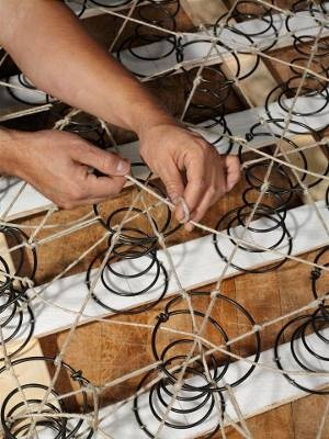 Shifman Mattress 8-way hand-tied boxspring